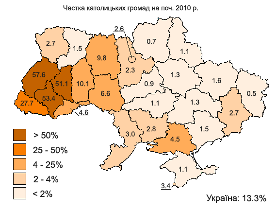 Catholic communities 2010